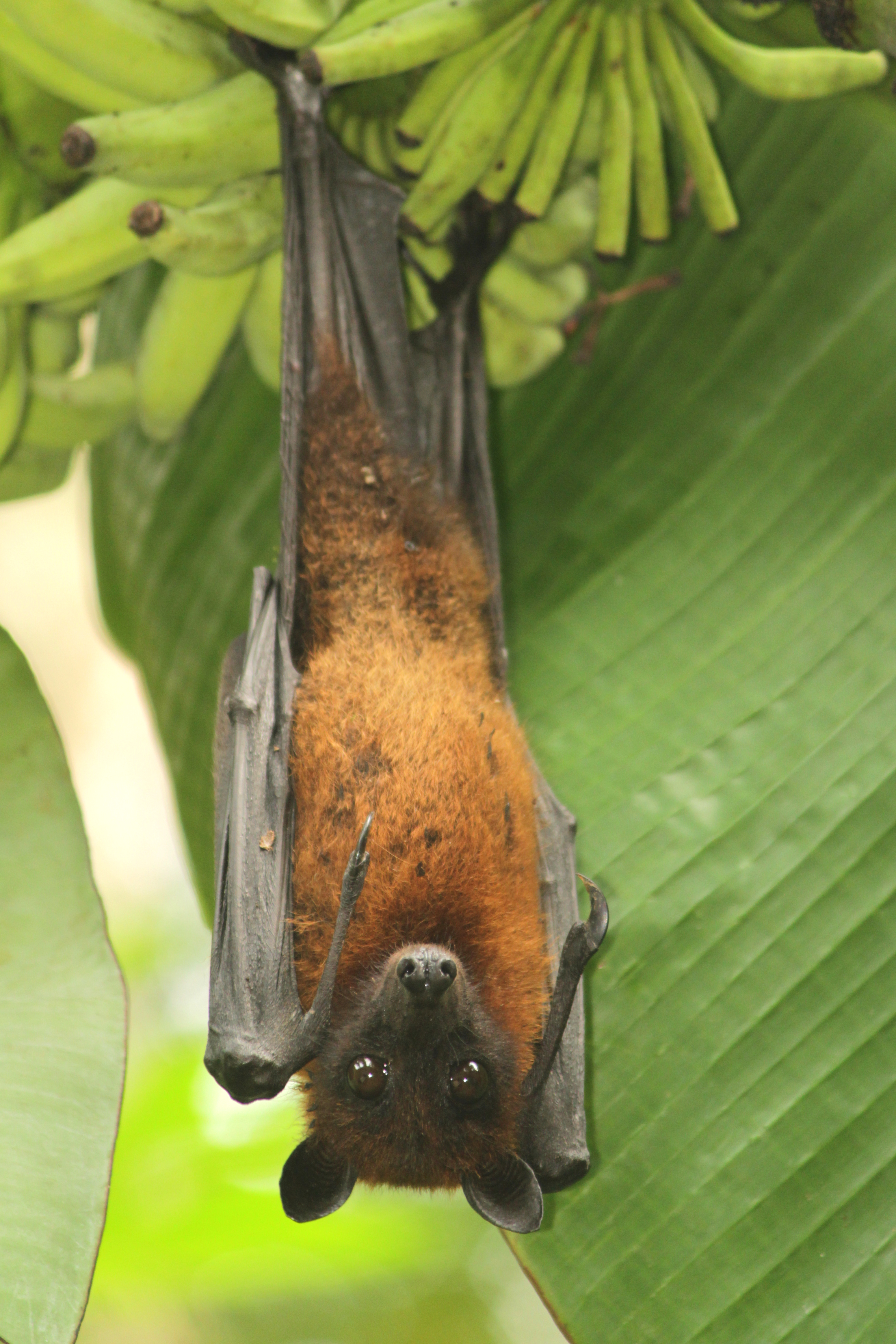 Greater Indian fruit bat. Photographed near Kanjirappally, Kerala.